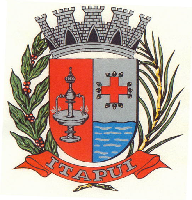 Coat of arms of Itapuí, São Paulo state, Brasil This work is in the public domain in Brazil for one of the following reasons: It is a work published or commissioned by a Brazilian government (federal, state, or municipal) prior to 1983.(Law 3071/1916, art. 662; Law 5988/1973, art. 46; Law 9610/1998, art. 115) It is the text of a treaty, convention, law, decree, regulation, judicial decision, or other official enactment.(Law 9610/1998, art. 8) Emerson